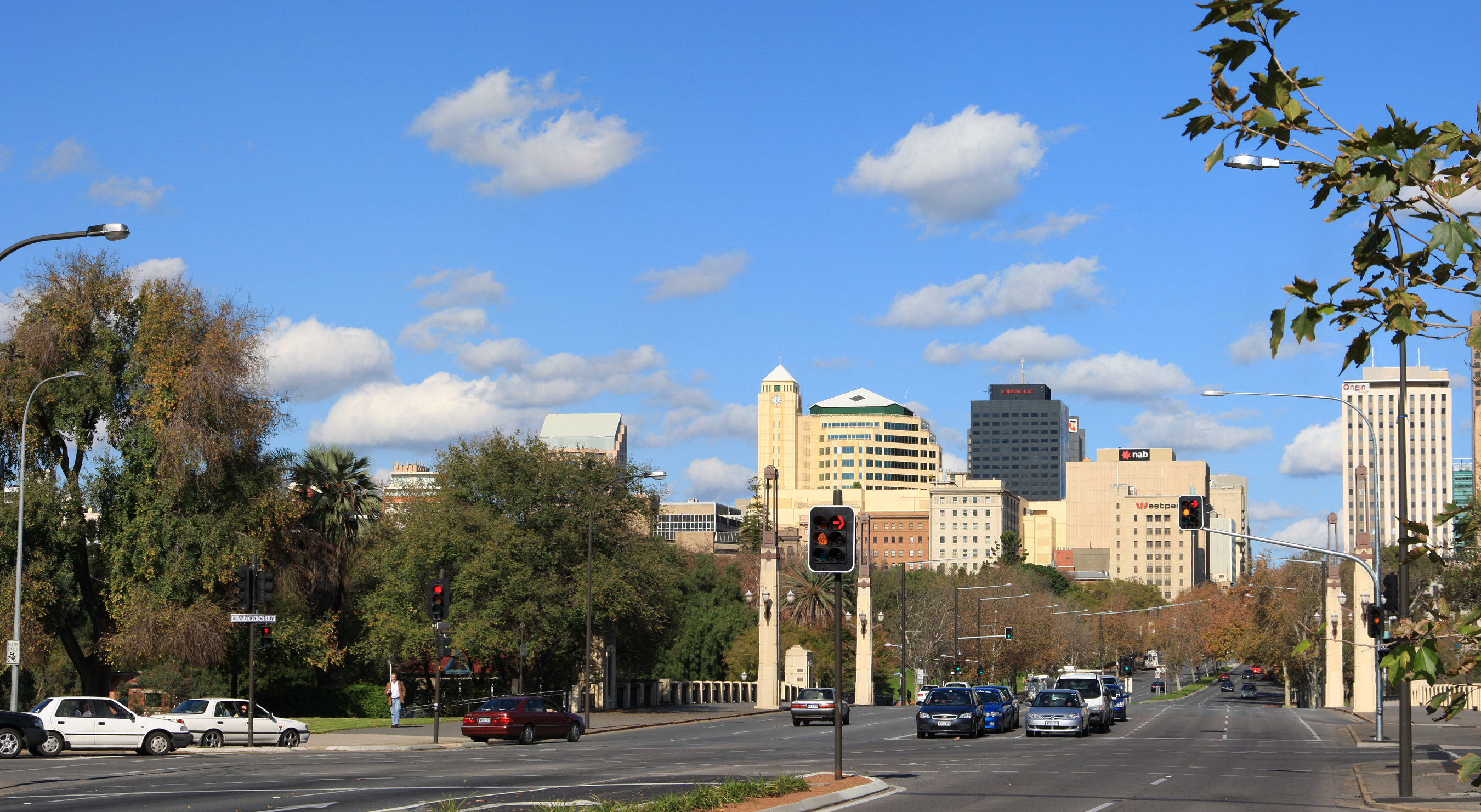 King William Road, taken from in front of the Adelaide Oval, looking south towards the Adelaide city centre and North Terrace, Adelaide. See also King William Street